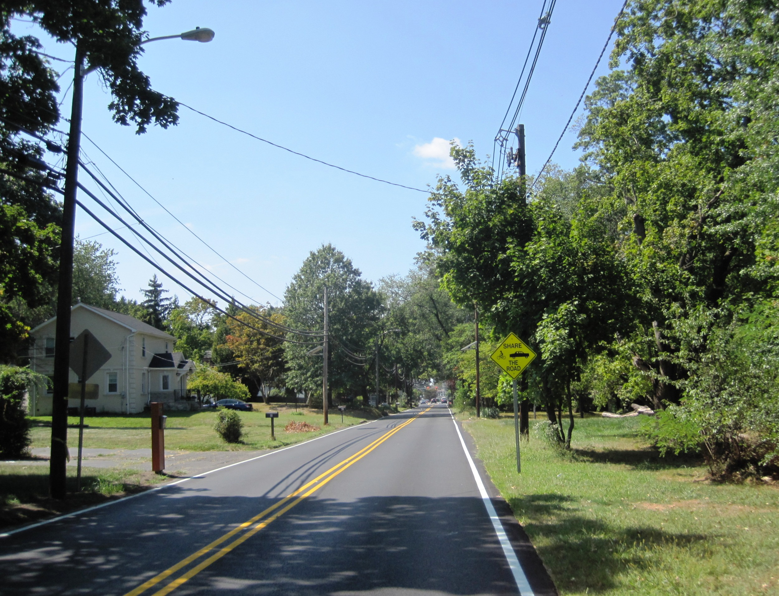 Photo of Princeton Junction, New Jersey, a census designated place within West Windsor Township. Photo taken along eastbound Cranbury Road (County Route 615) between Sunnydale Way and Canton Place.